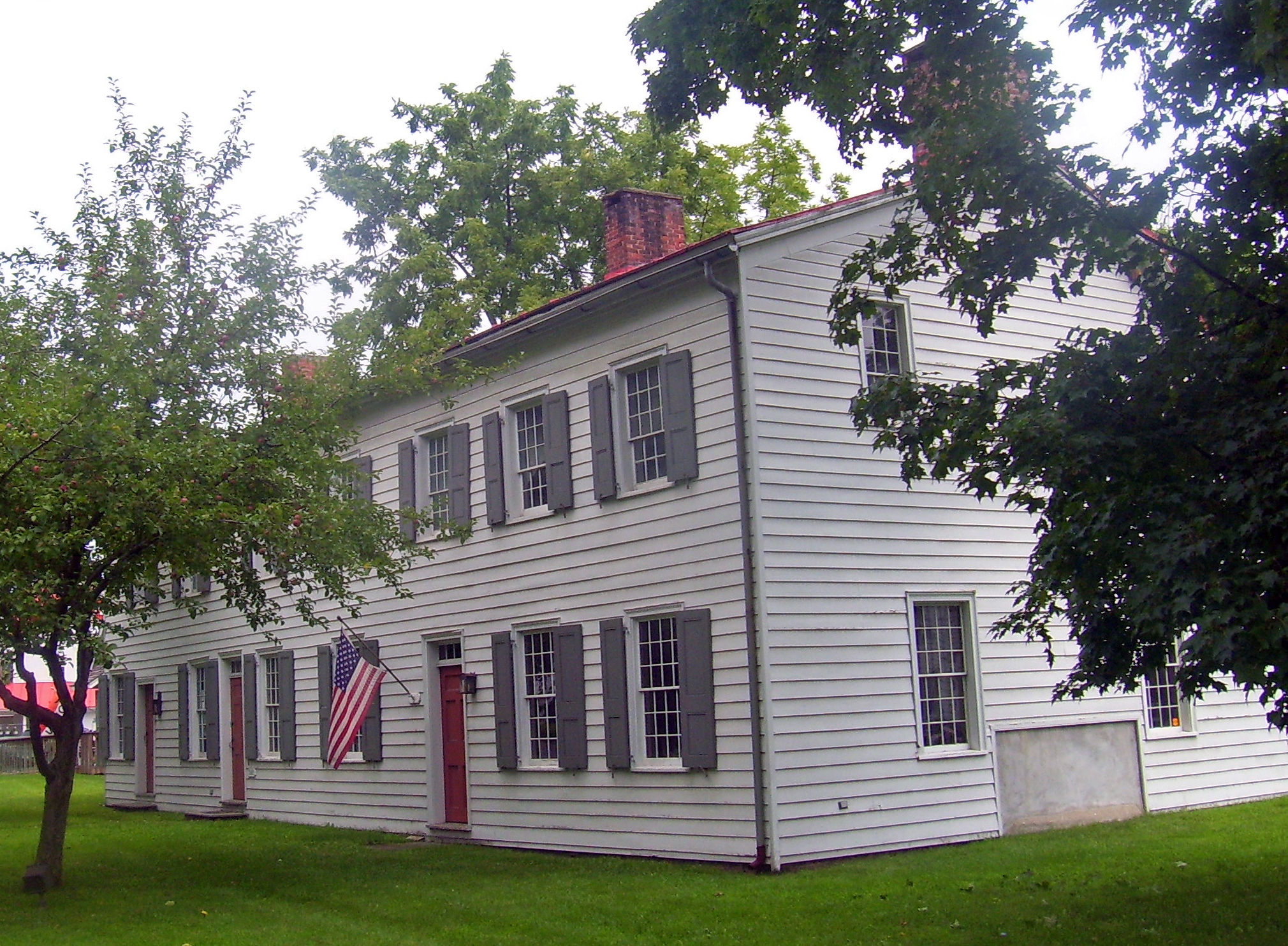 Elmendorph Inn, oldest building in Red Hook, NY, USA